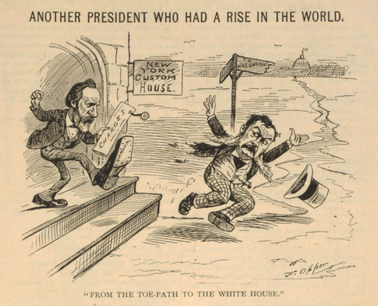 Page of Puck magazine with cartoon showing Chester Arthur kicked out of the New York Custom House, by man holding paper "charges," in front of sign pointing to Washington. "Another president who had a rise in the world - From the toe-path to the White House"